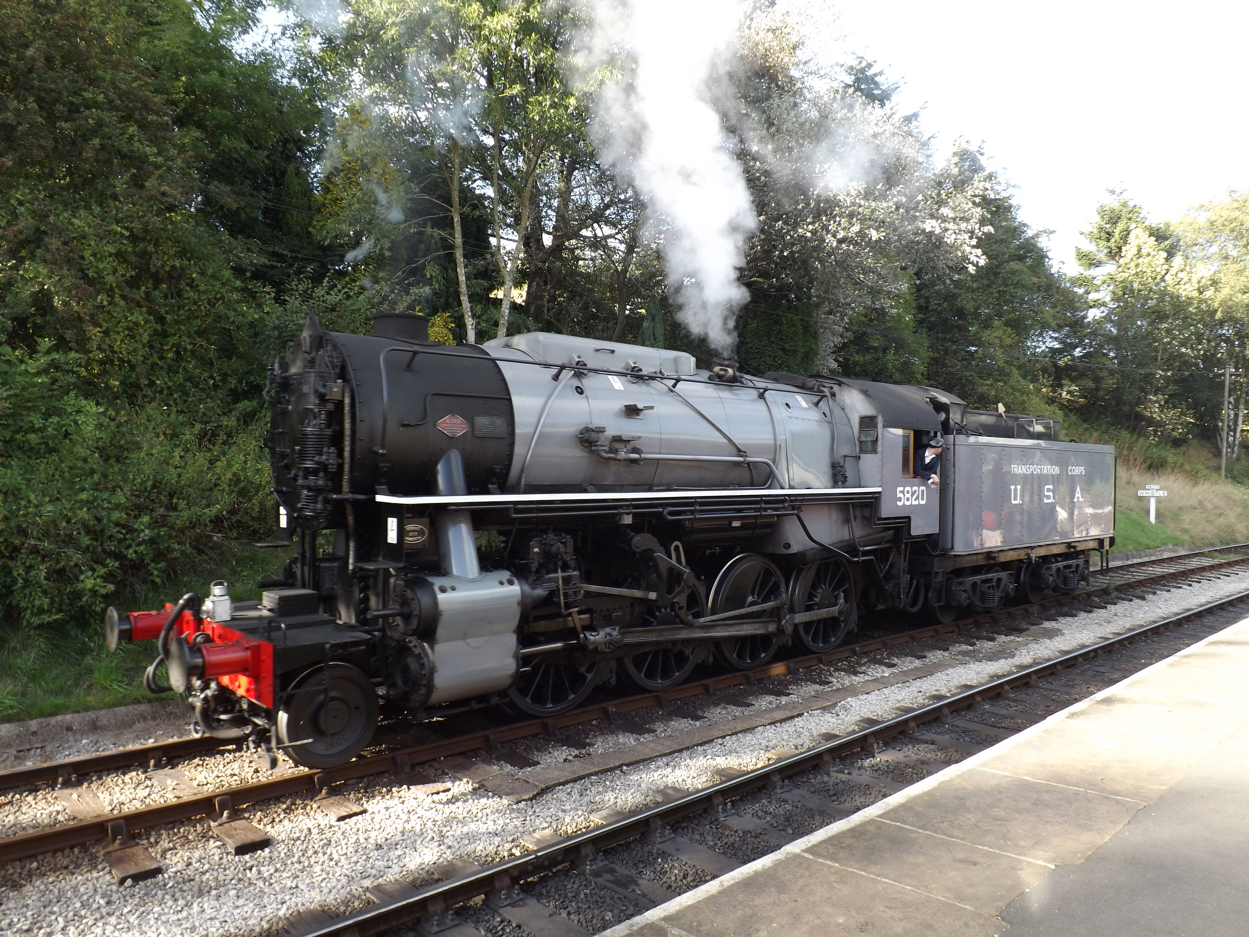 USATC S160 2-8-0 No. 5820 runs around its train at Oxenhope on the Keighley and Worth Valley Railway.